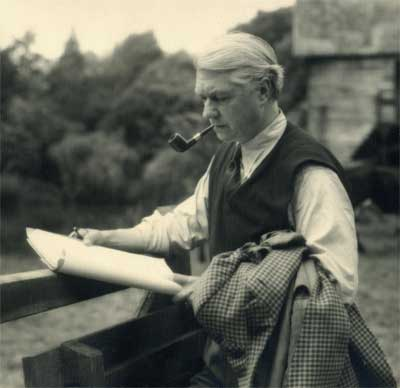 English poet and writer. Location: Pepys' house, Brampton.